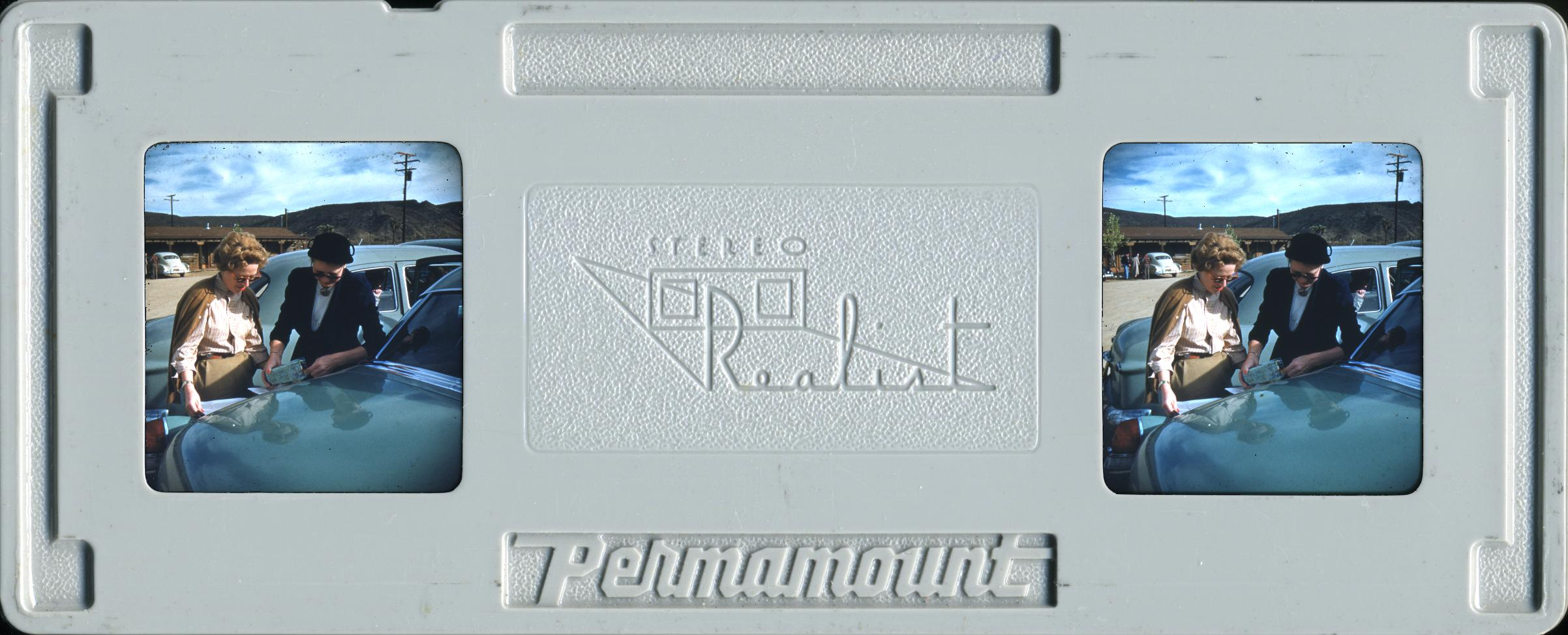 Front side of Realist permamount, this is the side it was to be viewed from.